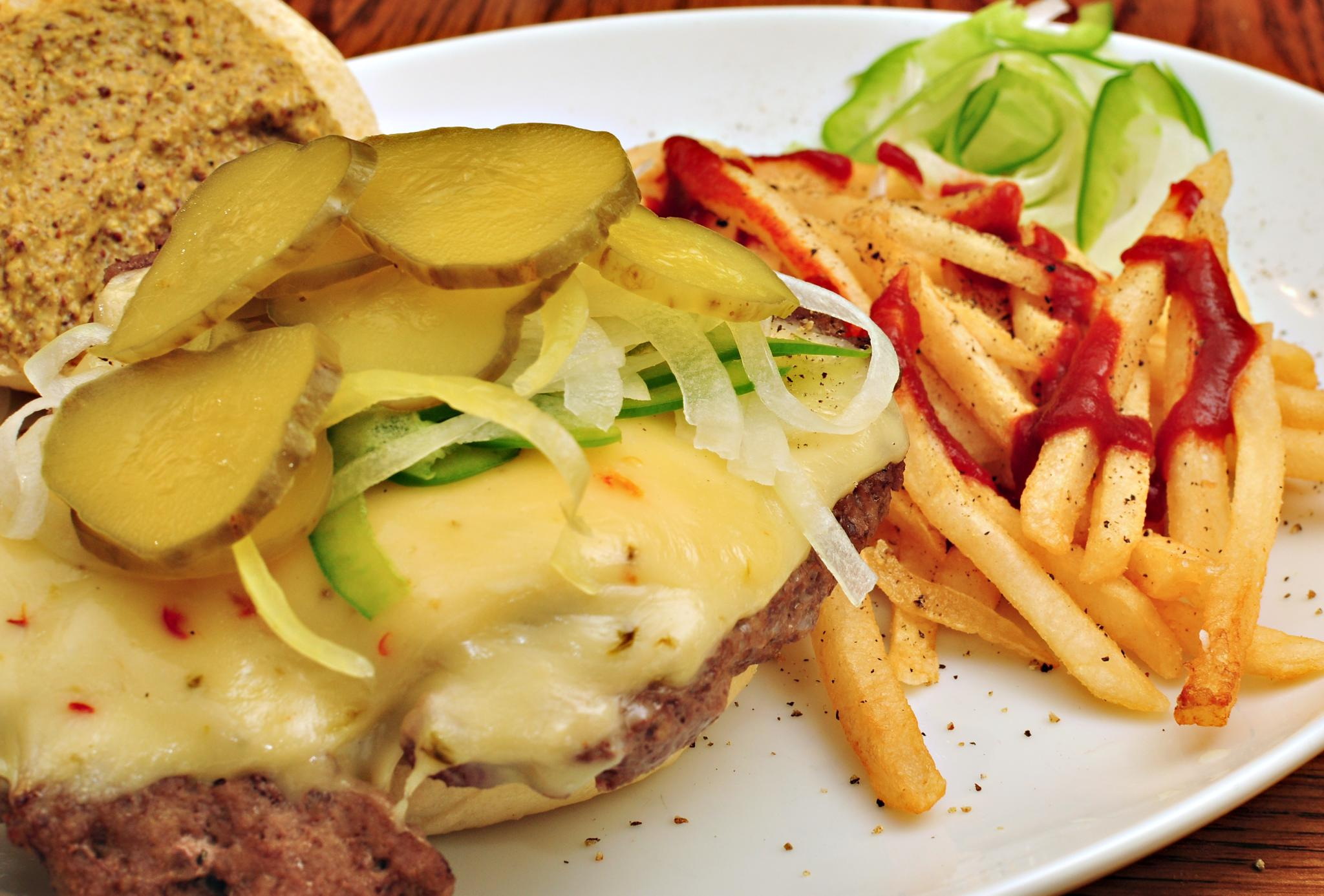 Cheeseburger with pickles and fries with sriracha sauce